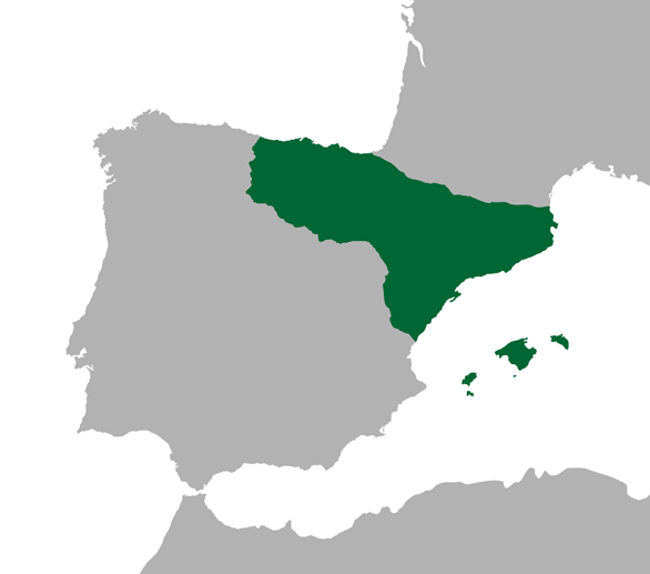 This map shows the Tarraconensis´ territory in the Roman Empire.